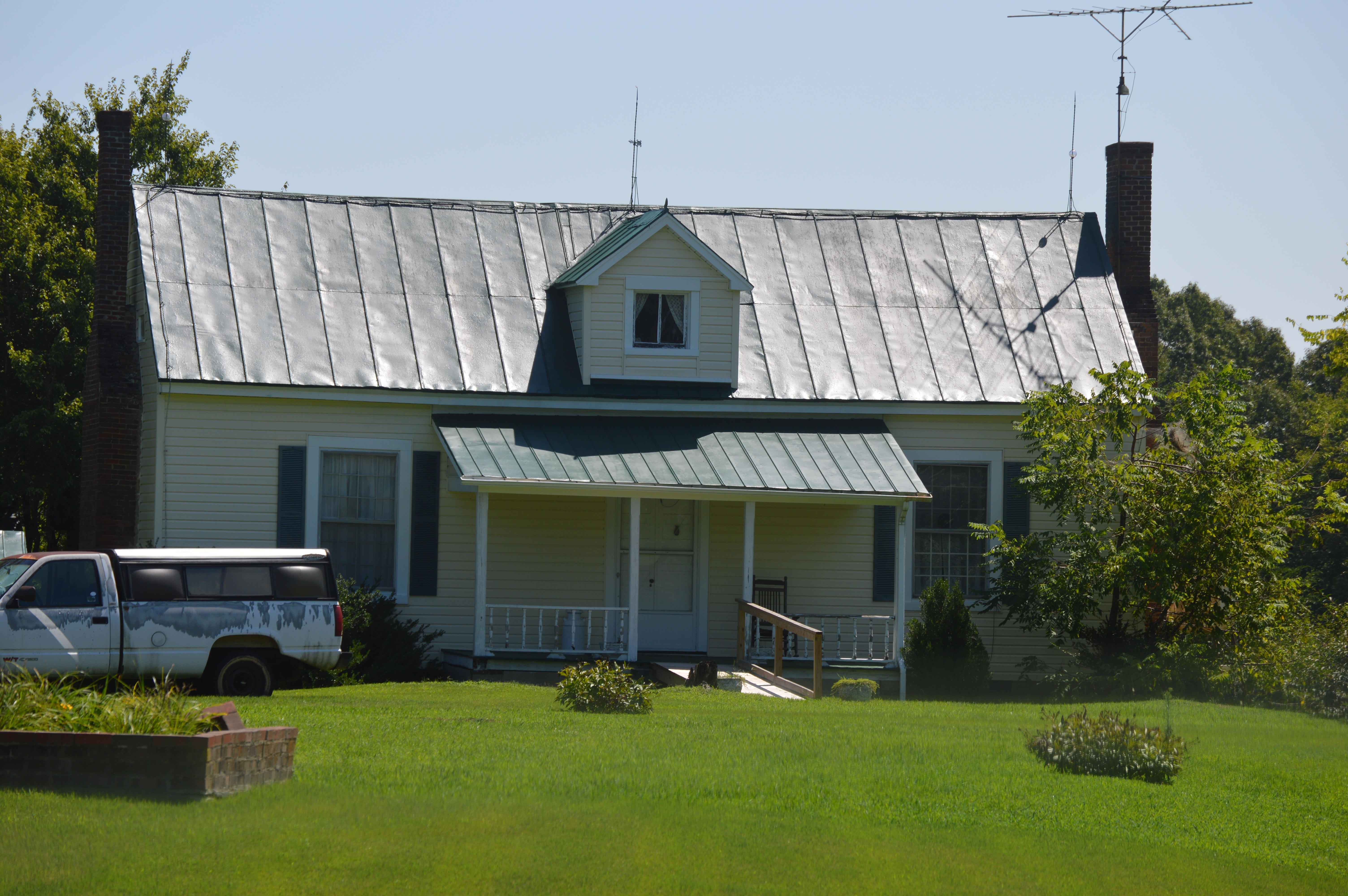 Front of the house at the Toombs Tobacco Farm, located at 1125 Tates Mill Road east of Red Oak in Charlotte County, Virginia, United States. Built in 1830, it is listed on the National Register of Historic Places.